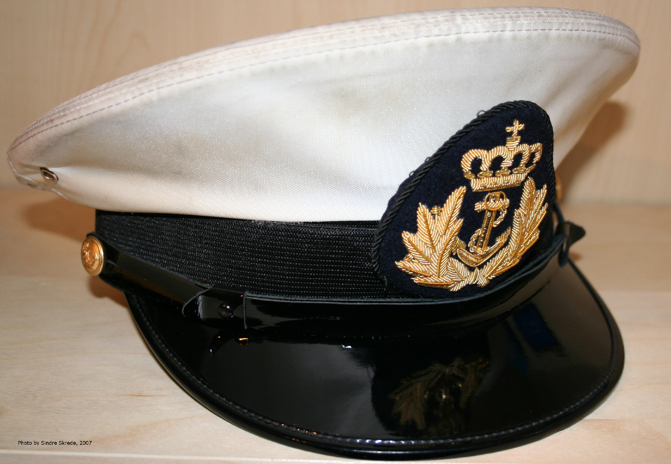 Officer's hat from the Royal Norwegian Navy, in use until 2005 (?) Newer hats looks similar, but is more "modern" in shape.